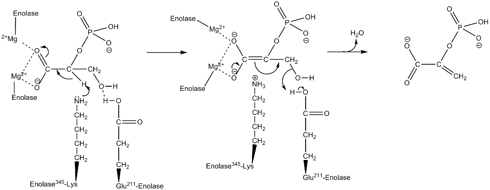 Tram Nguyen & Katelyn Thompson; Mechanism of enolase converting 2-phosphoglycerate to phosphoenolpyruvate, illustrated via ChemDraw 10.0.